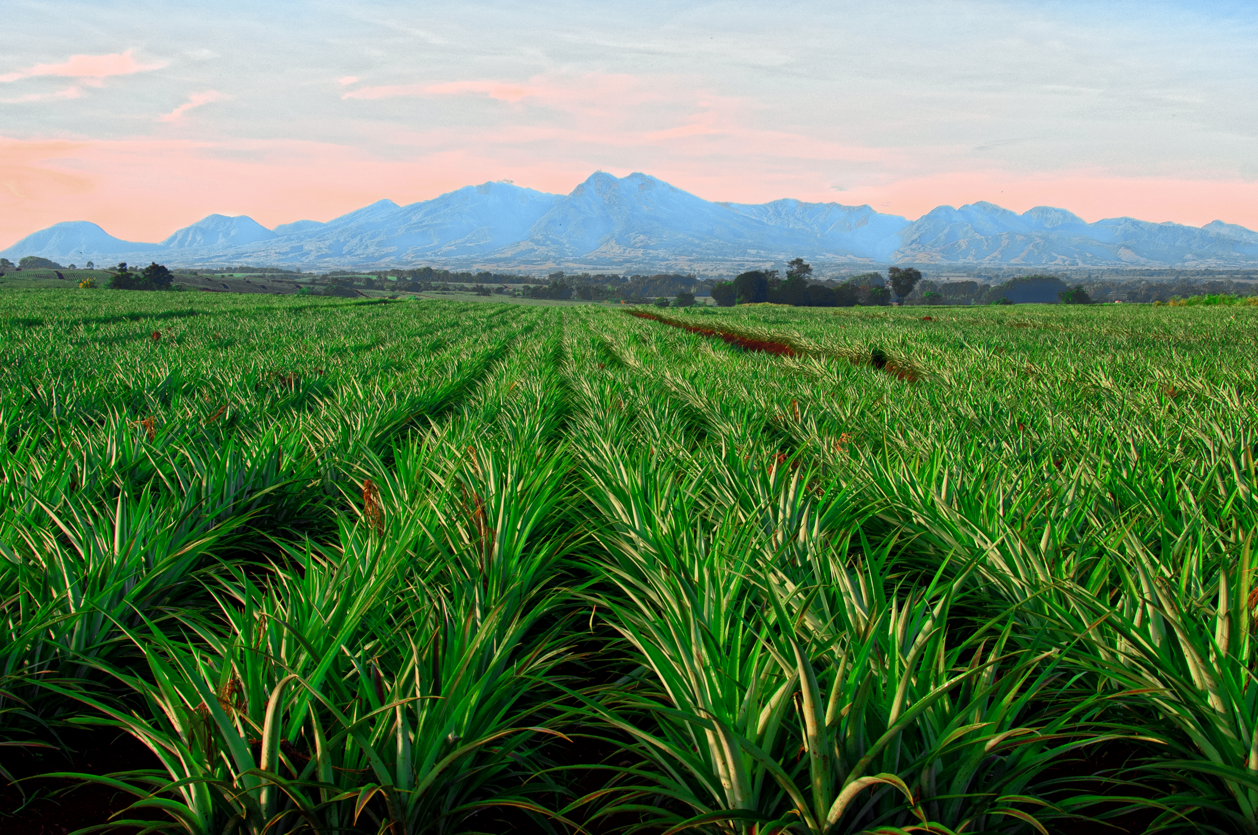 View of Mt. Kitanglad from a pineapple plantation in Bukidnon